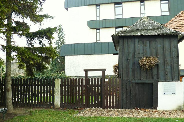 Haydn Garden in Eisenstadt.